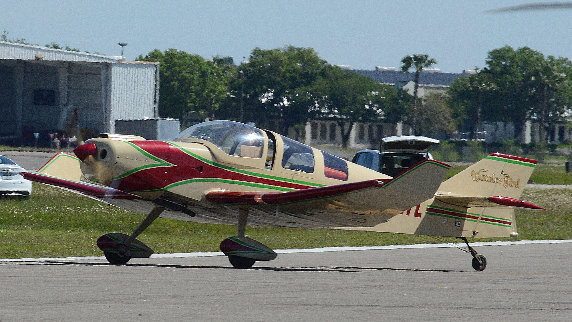 Taken at Lakeland Linder Regional Airport, Florida